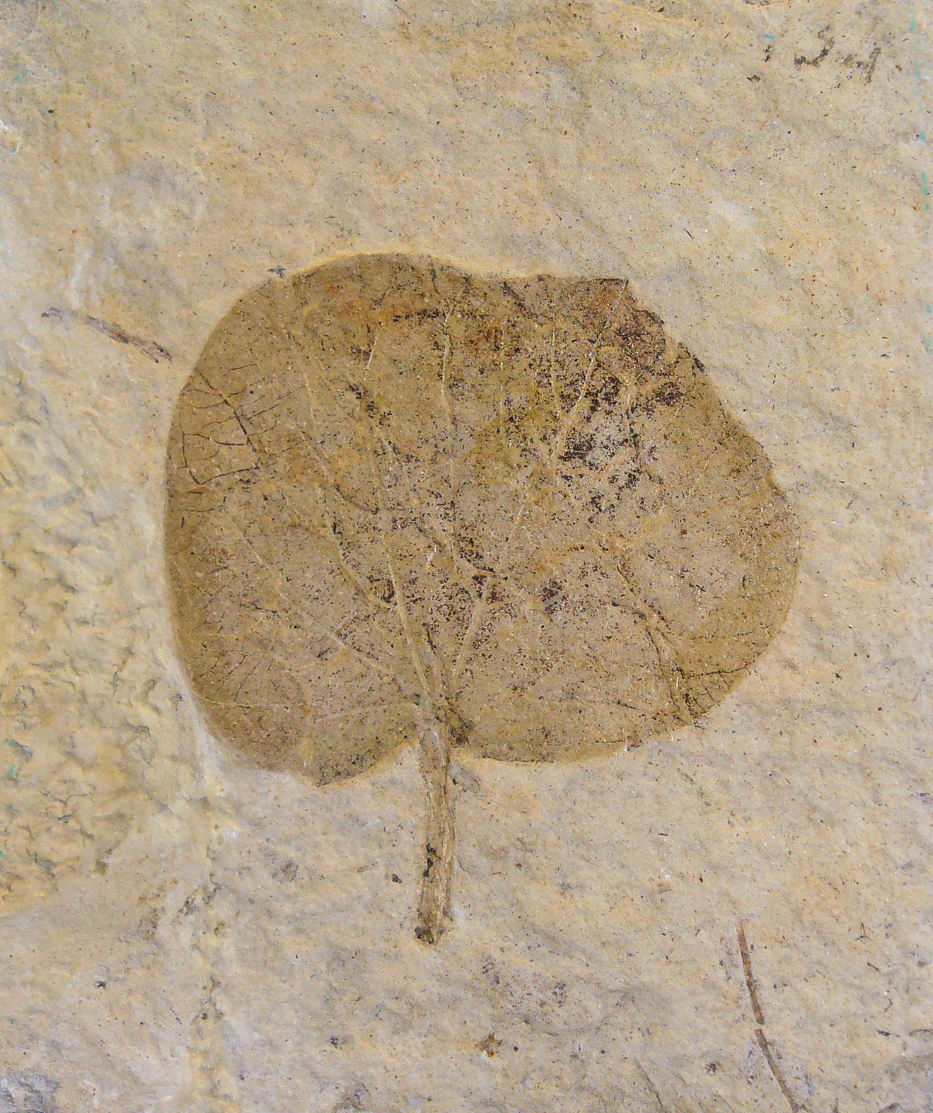 Cercis cyclophylla, Fabaceae, Miocene, Öhningen layers, Öhningen, Germany; Staatliches Museum für Naturkunde Karlsruhe, Germany.